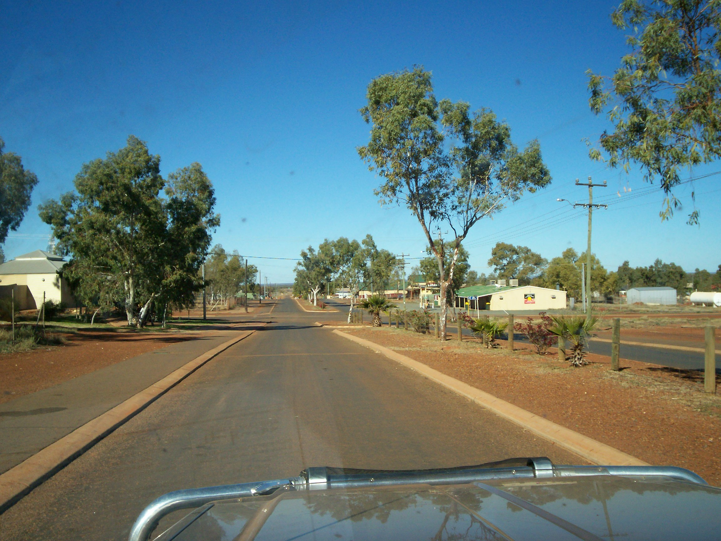 Photo of Wiluna taken by Gazjo on 25 June 2007